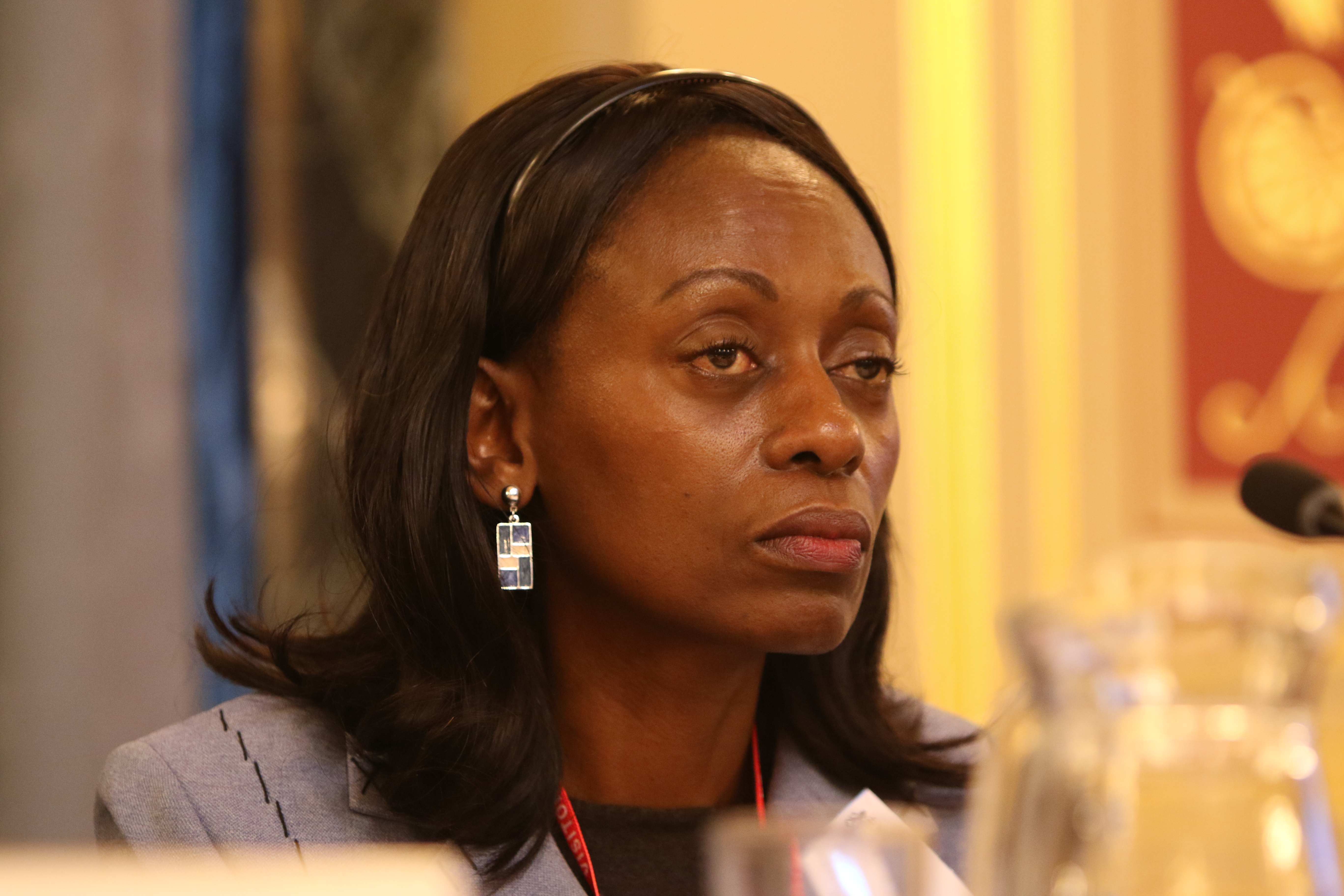 Josephine Ojiambo, Deputy Secretary General of the Commonwealth at the two day summit to bring together experts to explore how freedom of religion or belief can help prevent violent extremism held at the Foreign & Commonwealth Office in London, 19 October 2016. Read more